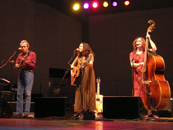 Picture of The Whites performing at South Park in Pittsburgh, Pennsylvania, on August 8, 2008.